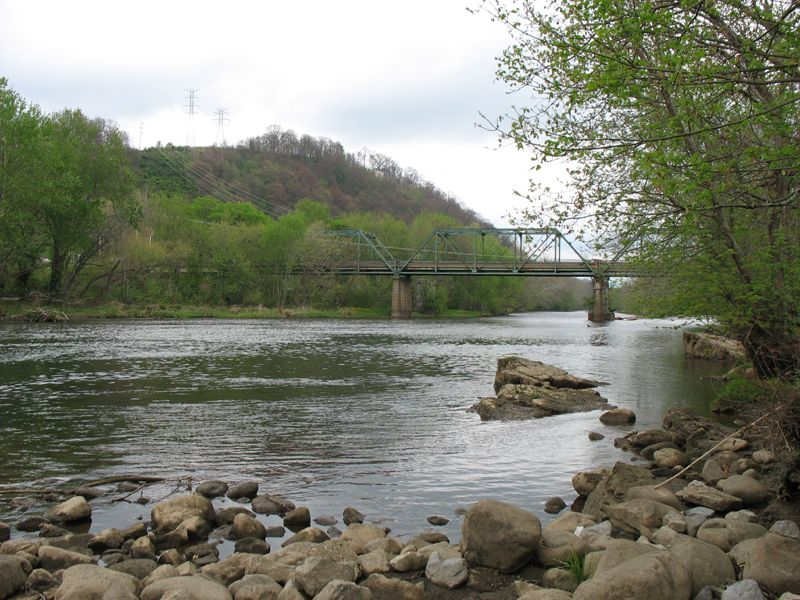 Iron truss bridge over Watauga River in Elizabethton, Tennessee on Old Bristol Highway.